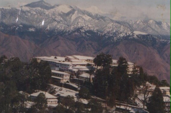 Convent of Jesus and Mary Waverley Mussoorie